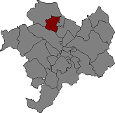 Location of Sant Quintí de Mediona in Alt Penedès